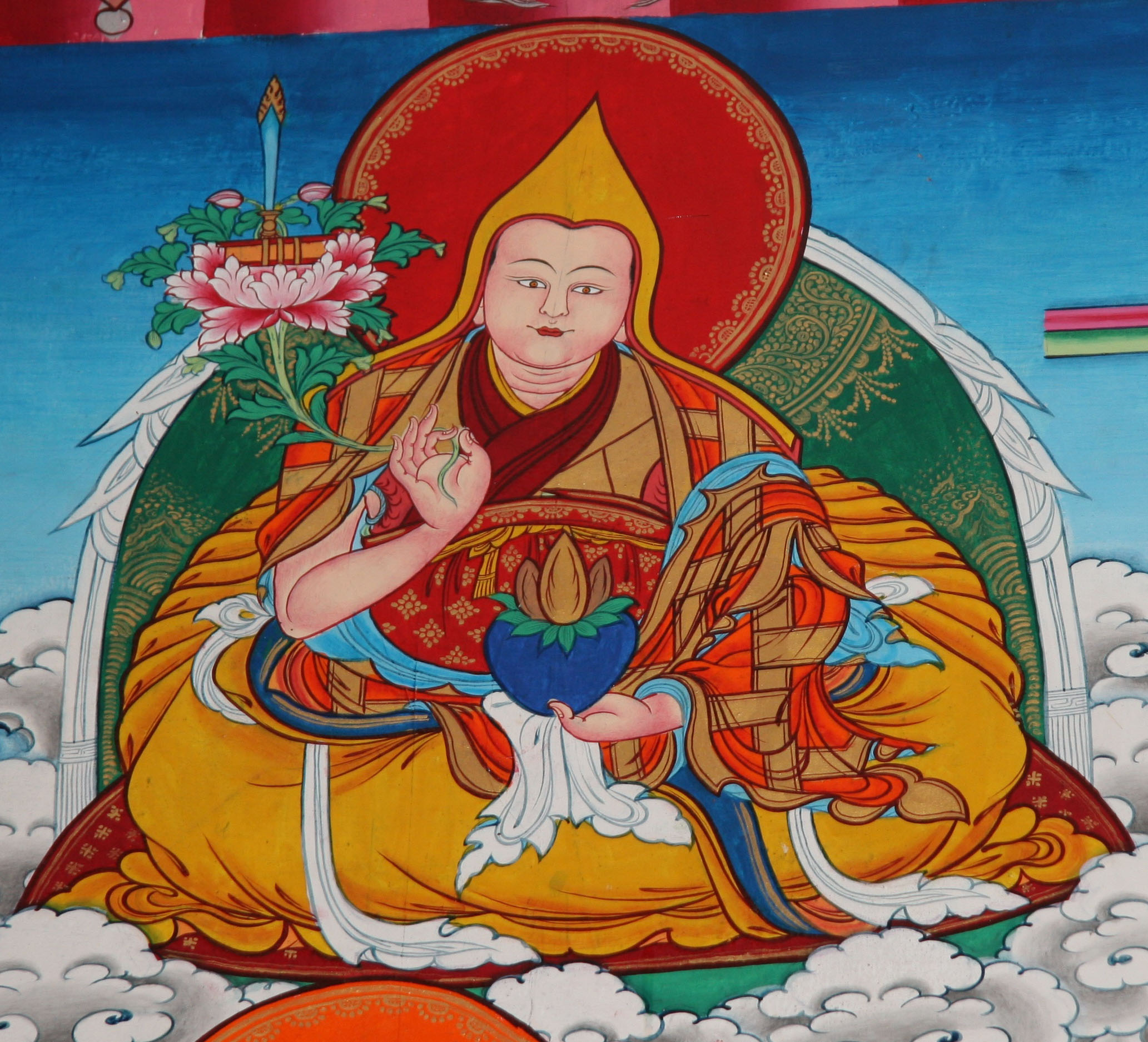 The Fifth Pakpa Lha, Gyelwa Gyatso b.1644 - d.1713